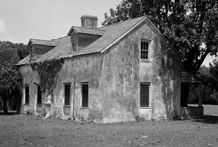 The Nathaniel Greene Cottage, or Tabby House — at Dungeness estate on Cumberland Island, southeast Georgia. 1958 image: HABS—Historic American Buildings Survey of Georgia.